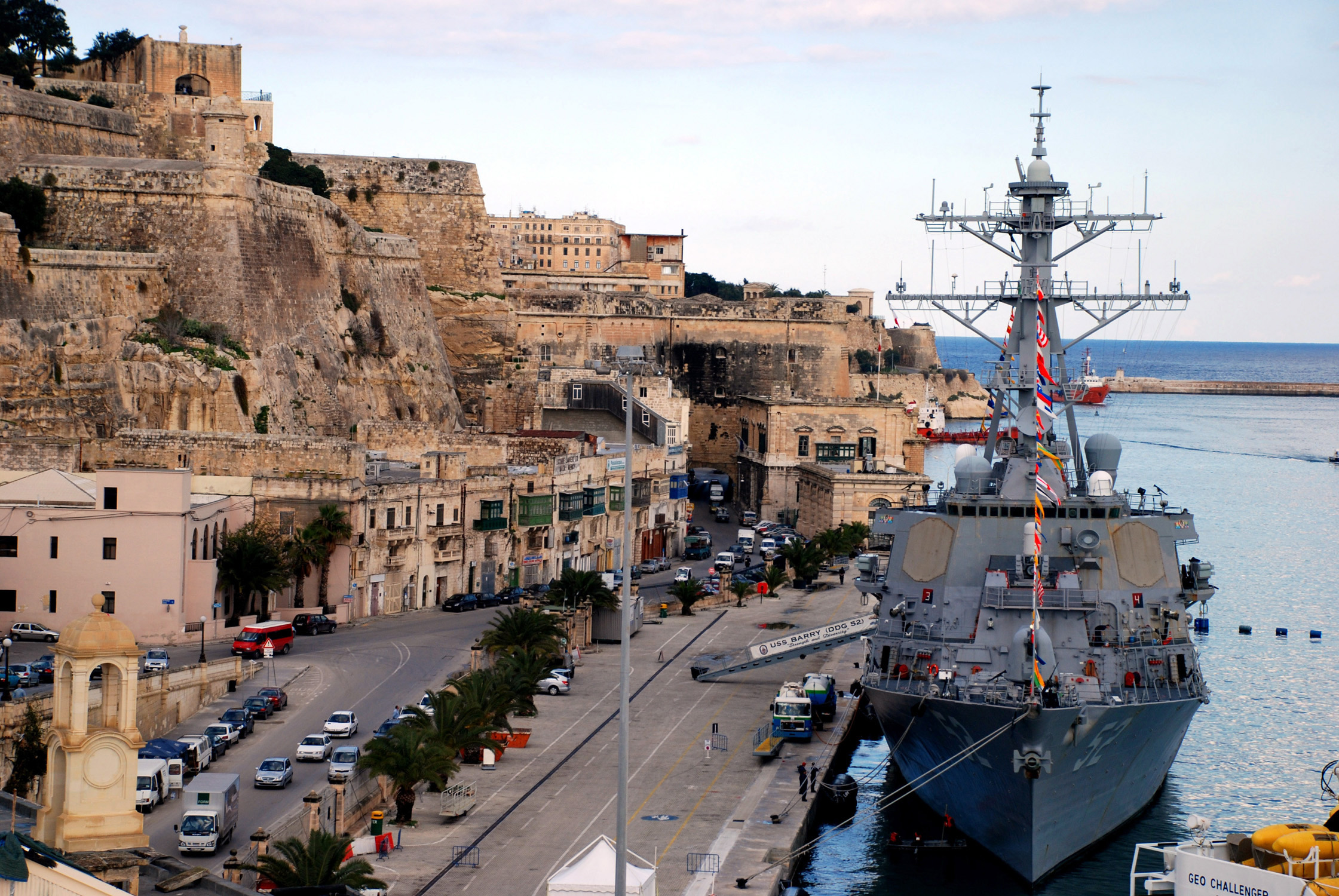 090106-N-6544L-166 VALETTA, Malta (Jan. 6, 2009) The guided-missile destroyer USS Barry (DDG 52) sits in port during its visit to Valetta to commemorate the 100th anniversary of the "Great White Fleet," an historic U.S. Navy goodwill voyage around the world that included a stop in Malta in 1909. In 1907, President Theodore Roosevelt sent 16 battleships, including 14,000 Sailors and Marines on a 14-month journey to demonstrate to the world the United States' friendship and its commitment to enhancing multi-lateral operations. The journey included 20 ports of call on six continents and traveled 43,000 miles. Because the ships were painted white, the fleet was soon known as the "Great White Fleet."